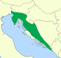 Distribution of Proteus anguinus, based on data.